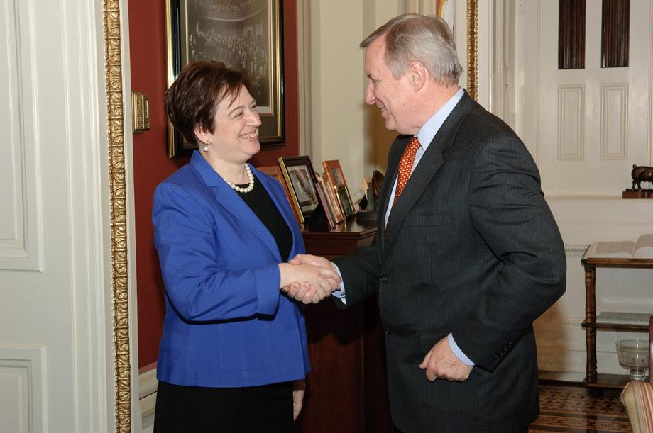 Senator Dick Durbin (D-IL) meets with Supreme Court nominee Elena Kagan.